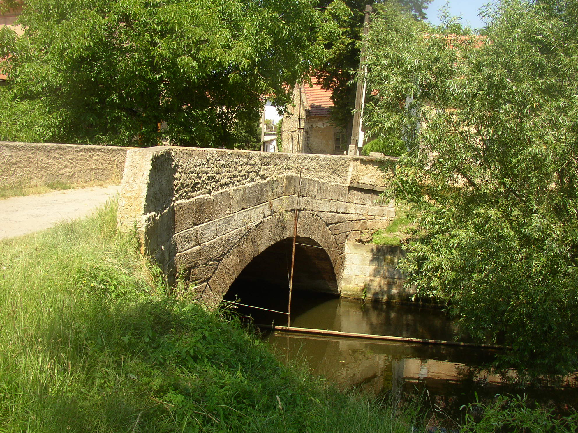 Doksany , Litoměřice District, Czech Republic. Small stone arch bridge over the millrace next to the mill.